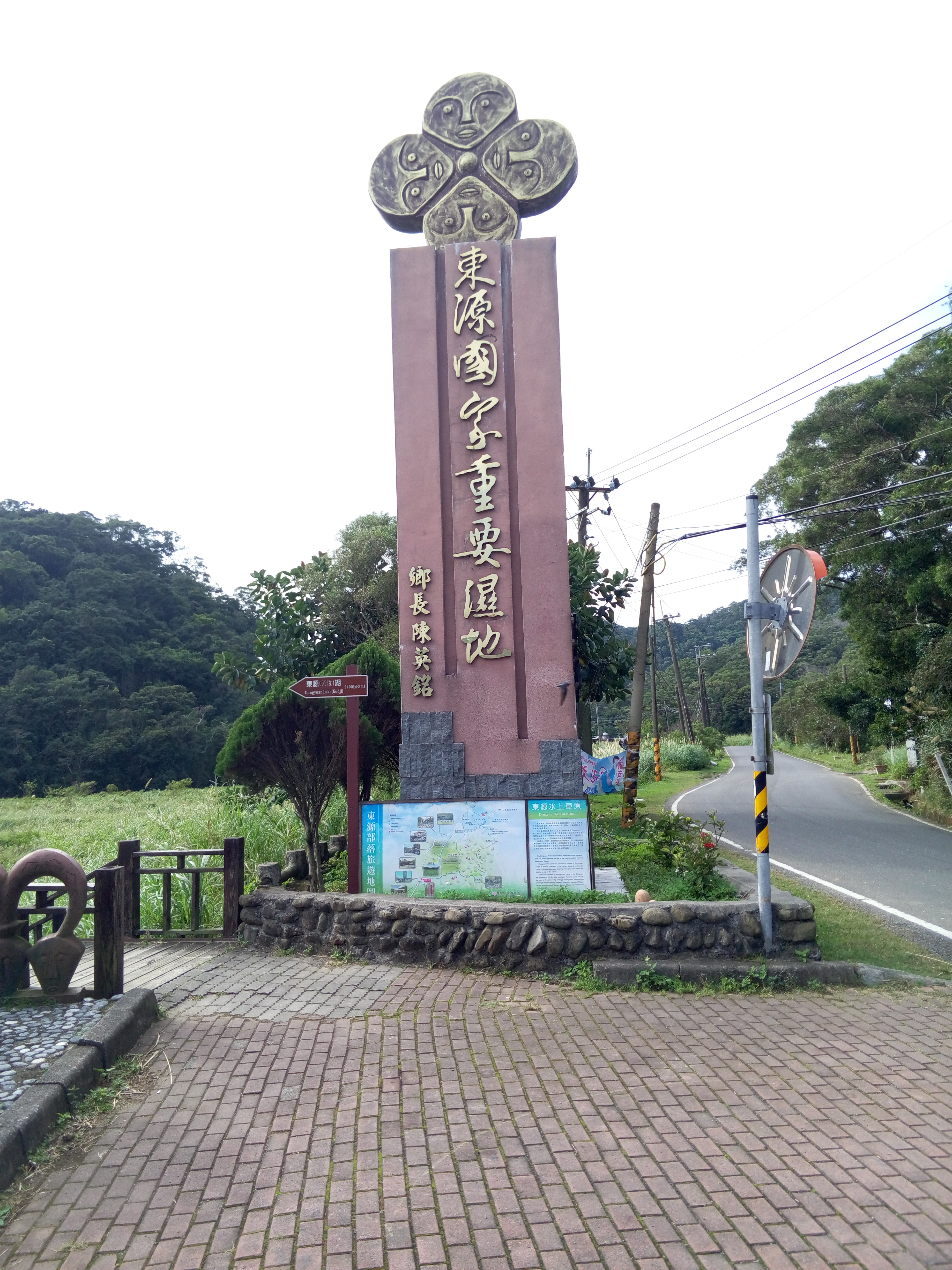 Taiwan Pingtung County Dongyuan Wetland